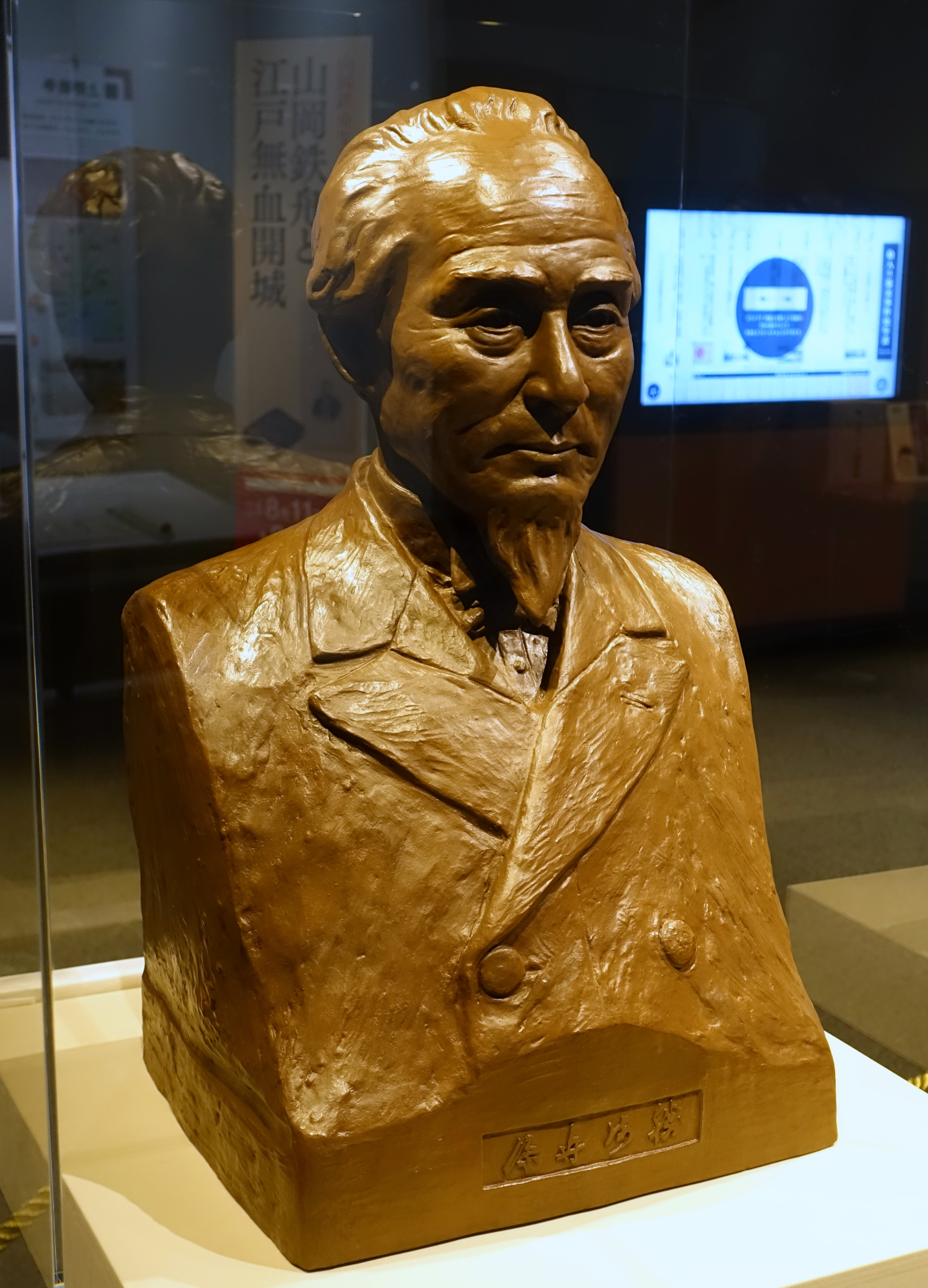 Katsu Kaishu by Motoyama Hakuun (1871-1952) - Edo-Tokyo Museum - Sumida, Tokyo, Japan.